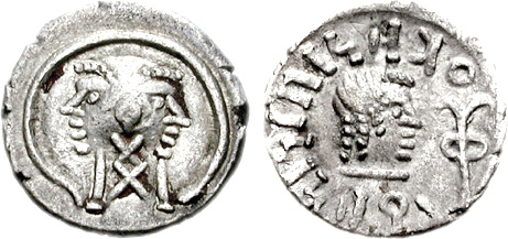 Coin of the Himyaritic king ʿAmdan Bayyin (king of Sheba and Dhu-Raydan, first century AD)